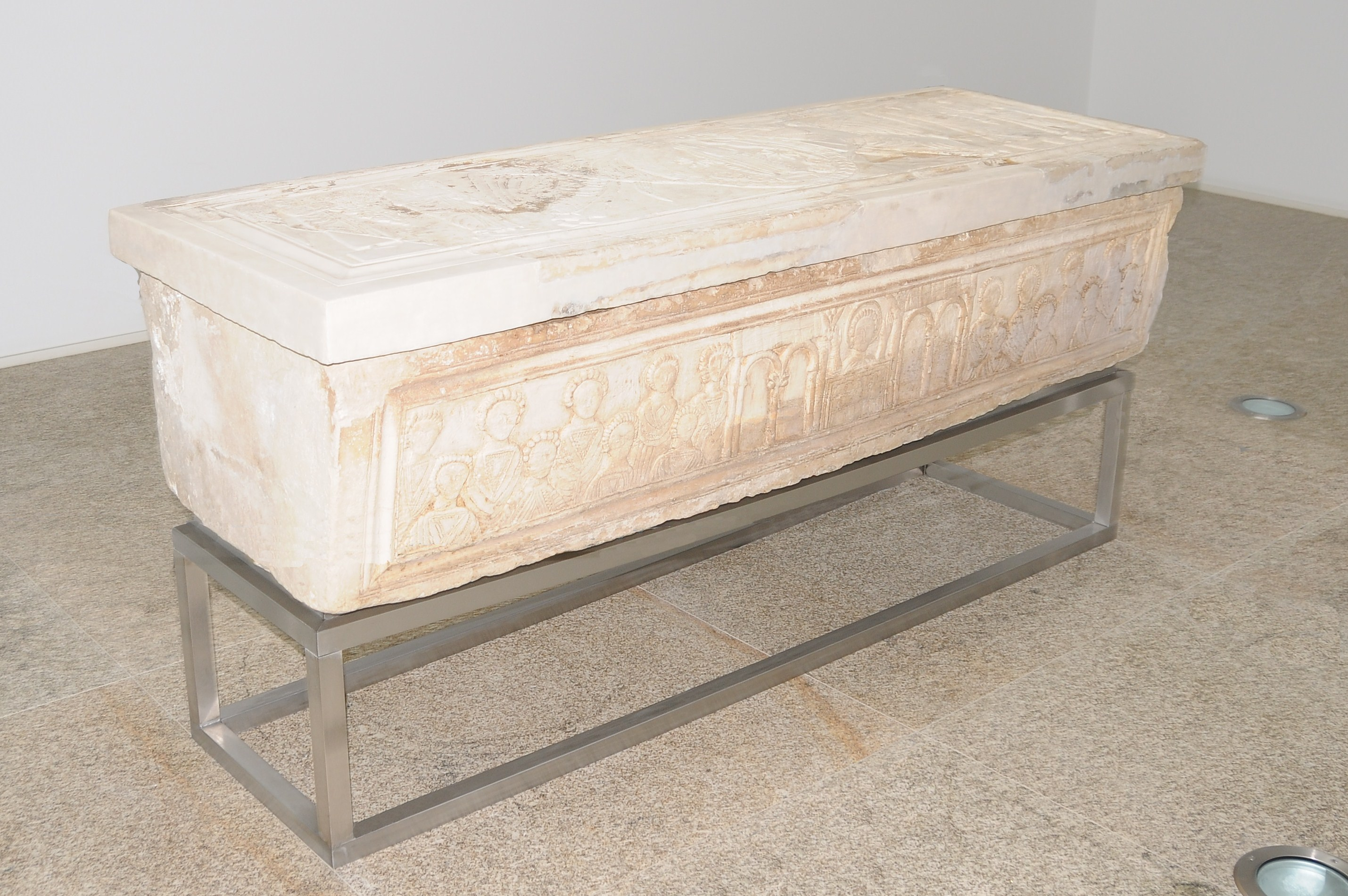 Martim of Braga Tomb, in Dume, Braga, Portugal